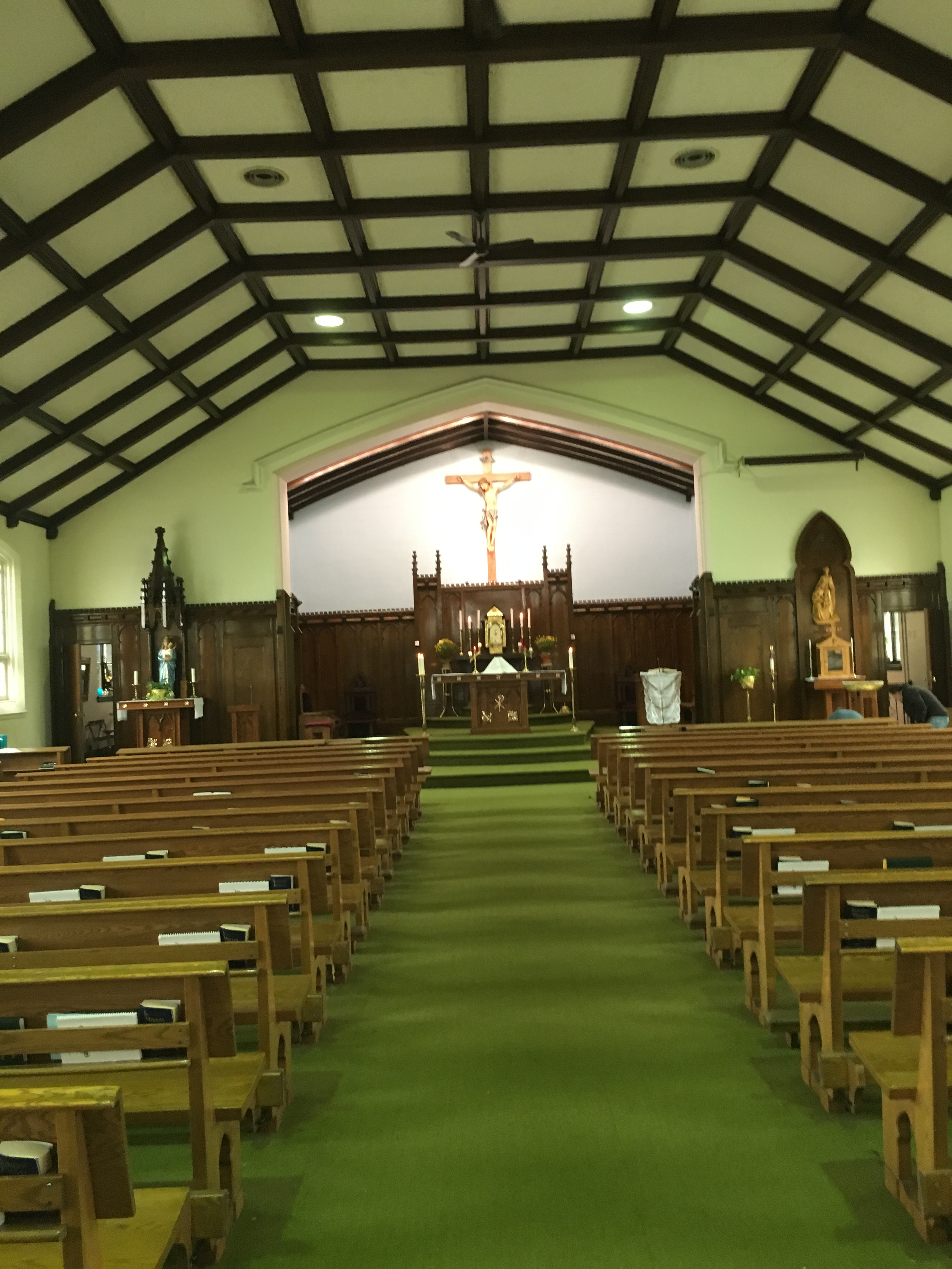 St George's Church, interior (sanctuary)